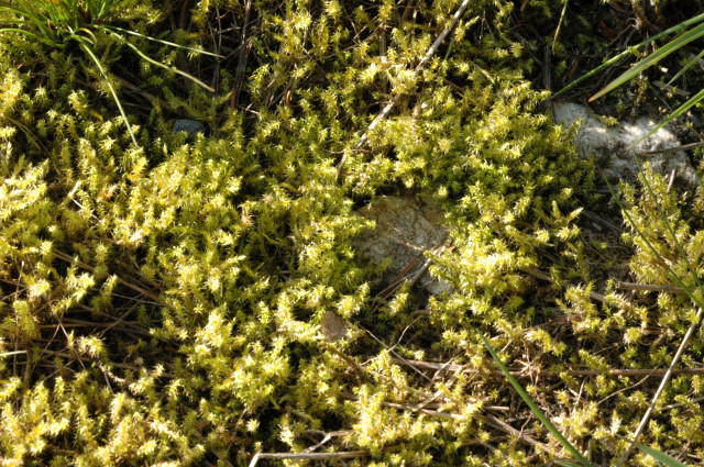 Picture taken in Commanster, Belgian High Ardennes . Species: Rhytidiadelphus squarrosus